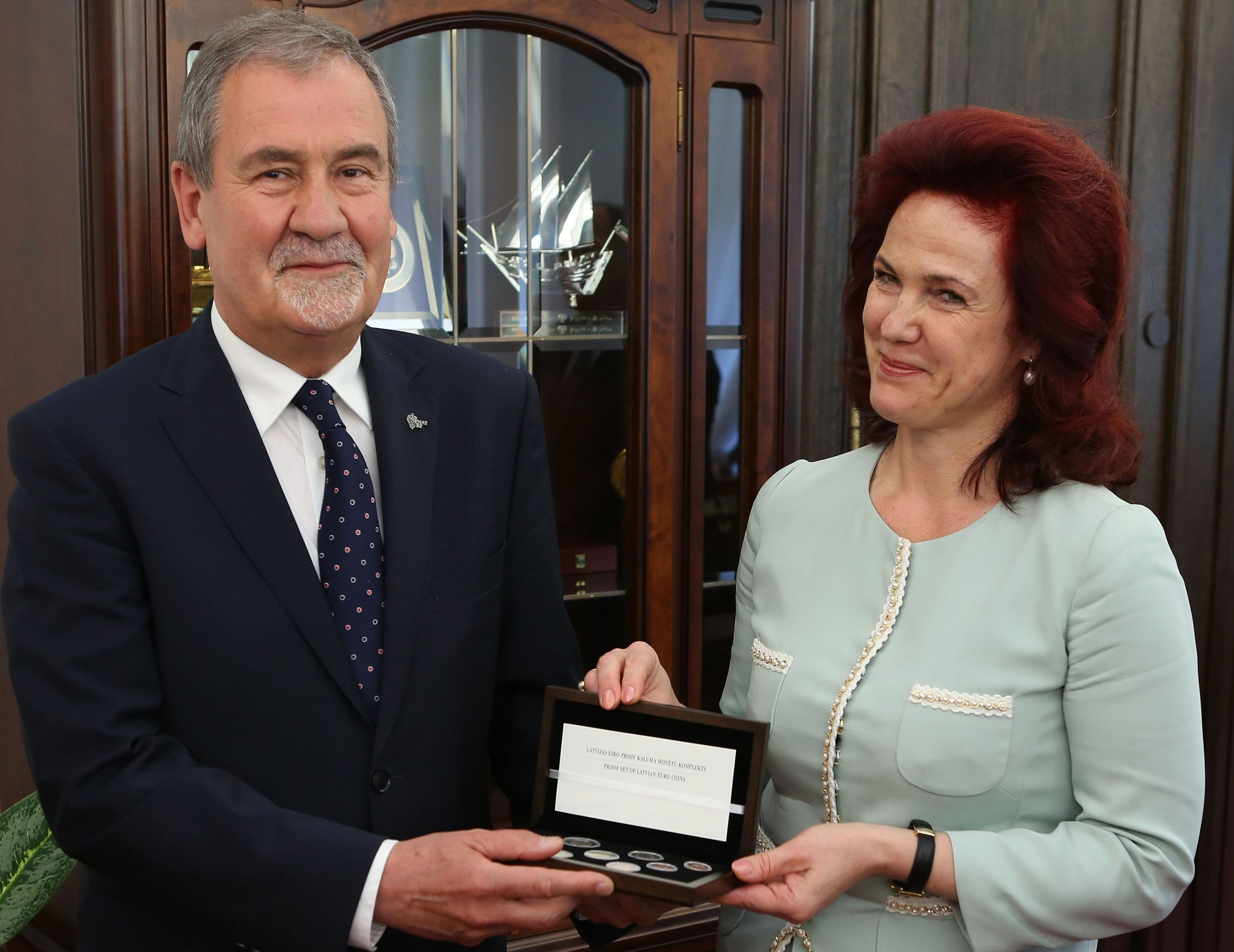 Speaker of the Saeima of Latvia Solvita Āboltiņa and Deputy Marshal Jan Wyrowiński in the Polish Senate